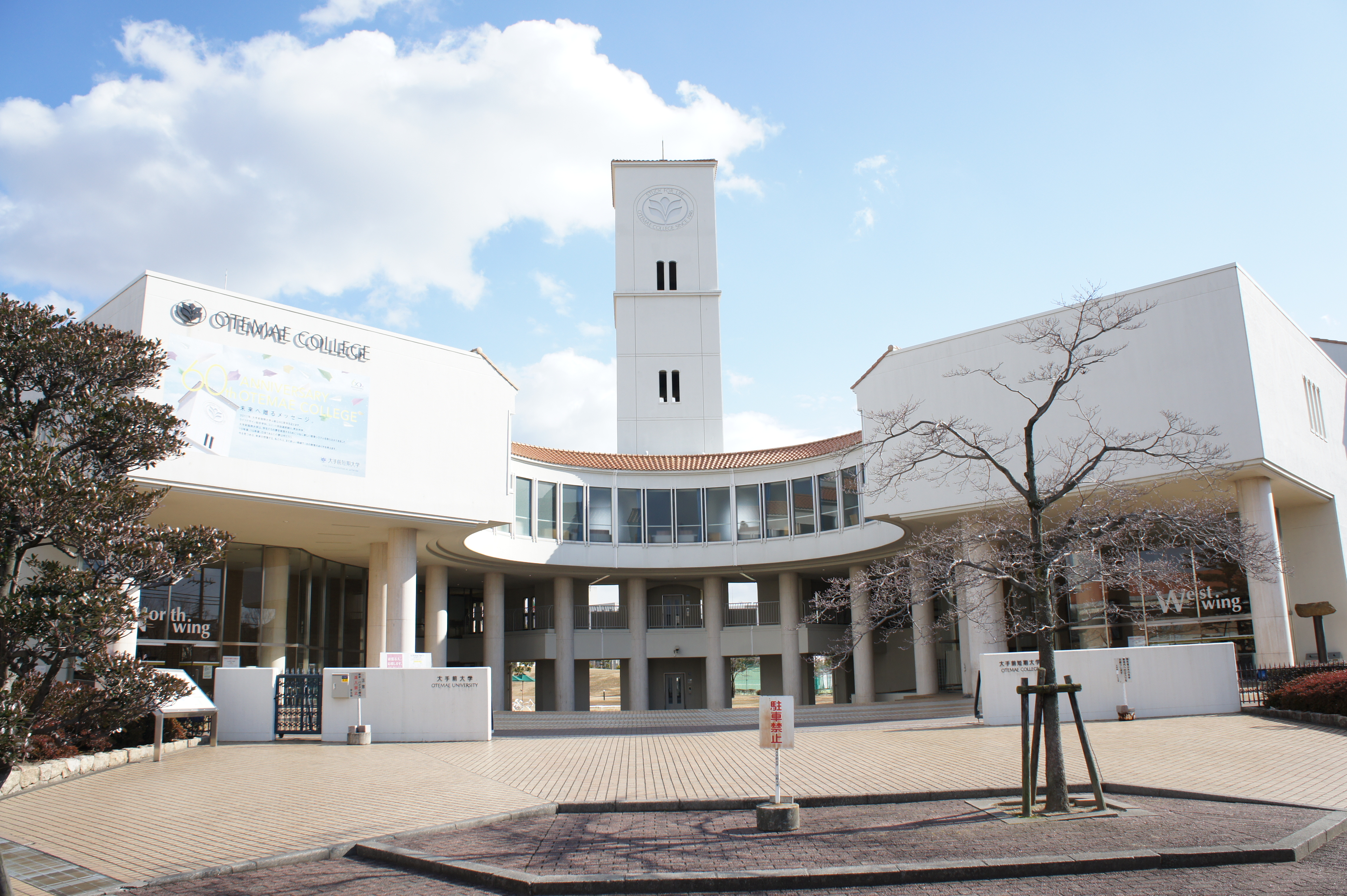 Otemae University & Otamae College Itami Inano Campus, 2-2-2 Inanocho Itami-City Hyogo JAPAN